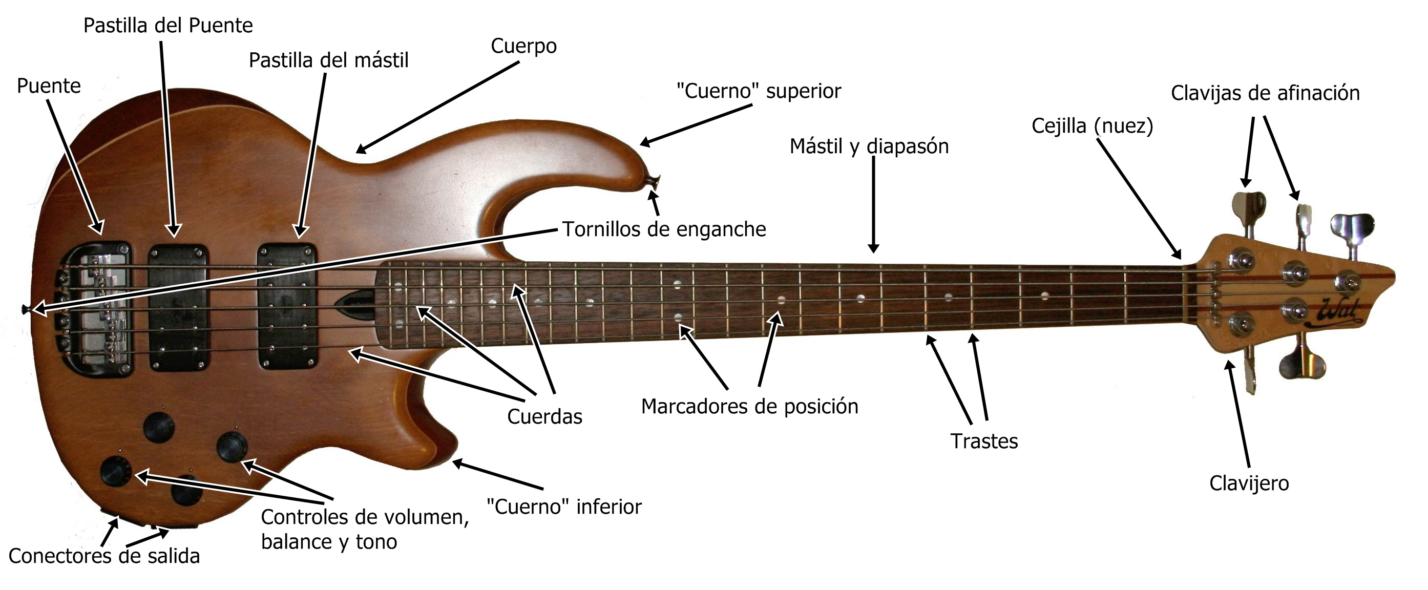 Wal 5 string bass guitar. Taken by Dinobass 7 may 2007